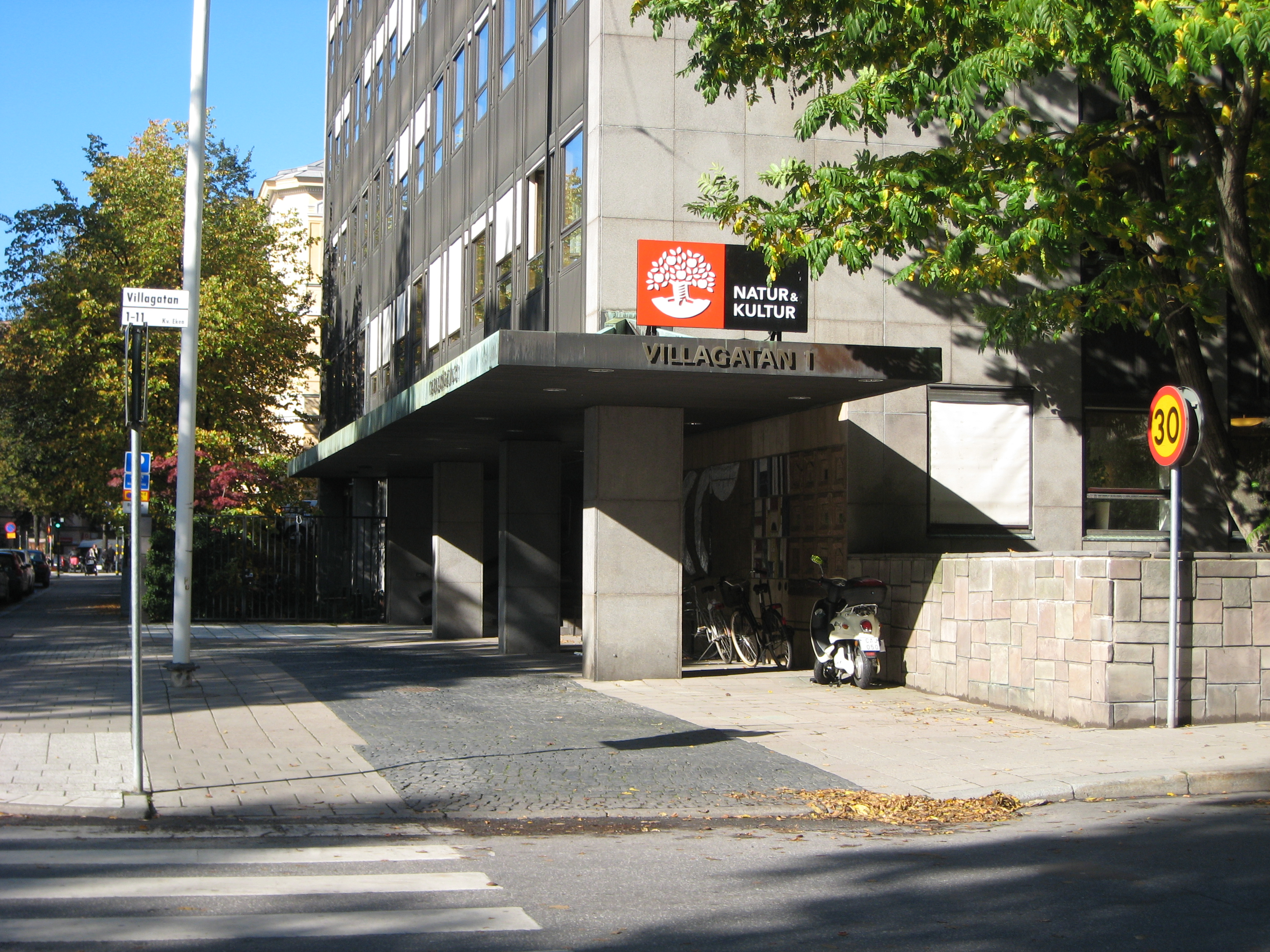 HQ of Natur och Kultur at Villagatan 1